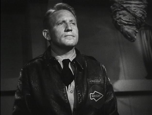 Spencer Tracy as Col. James Doolittle in Thirty Seconds Over Tokyo.